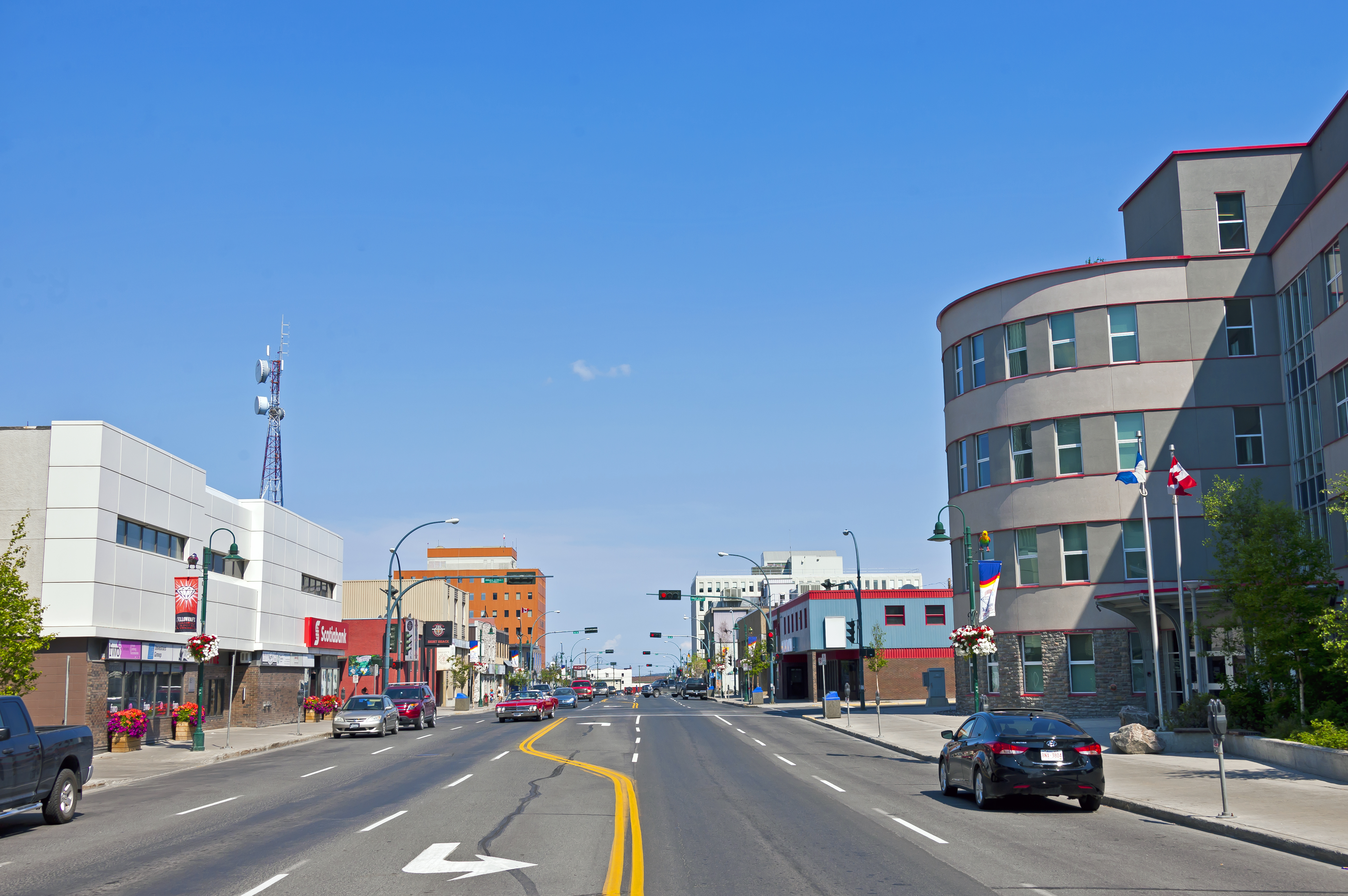 Looking north along 50th Avenue in downtown Yellowknife, NT